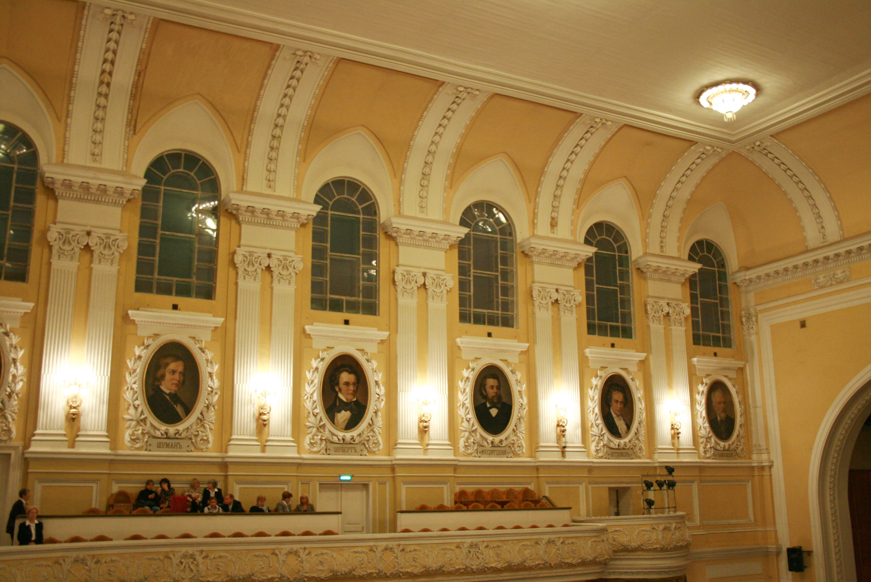 Left wall of Great Hall of the Moscow conservatory.